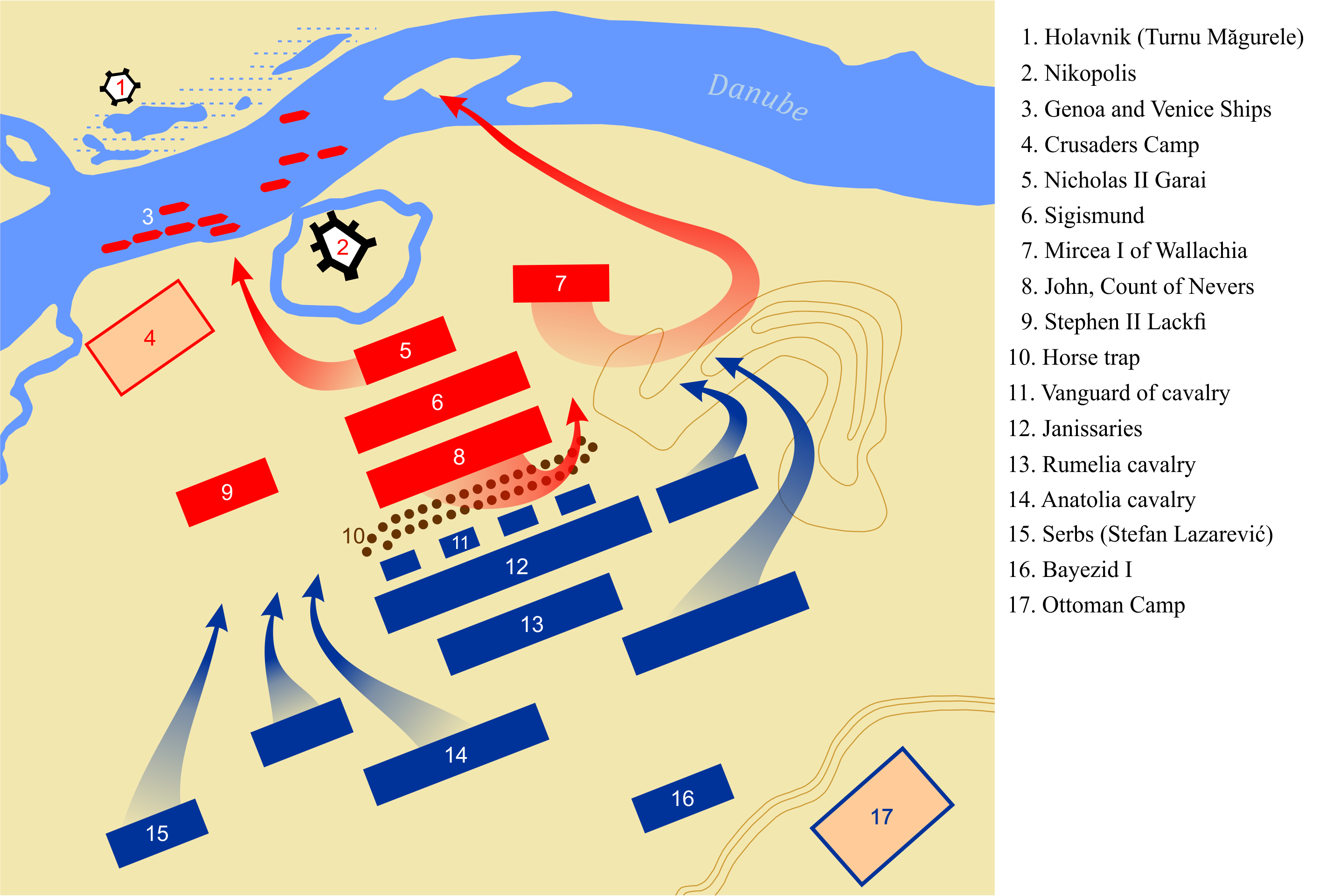 Plan of the Battle of Nicopolis (1396)